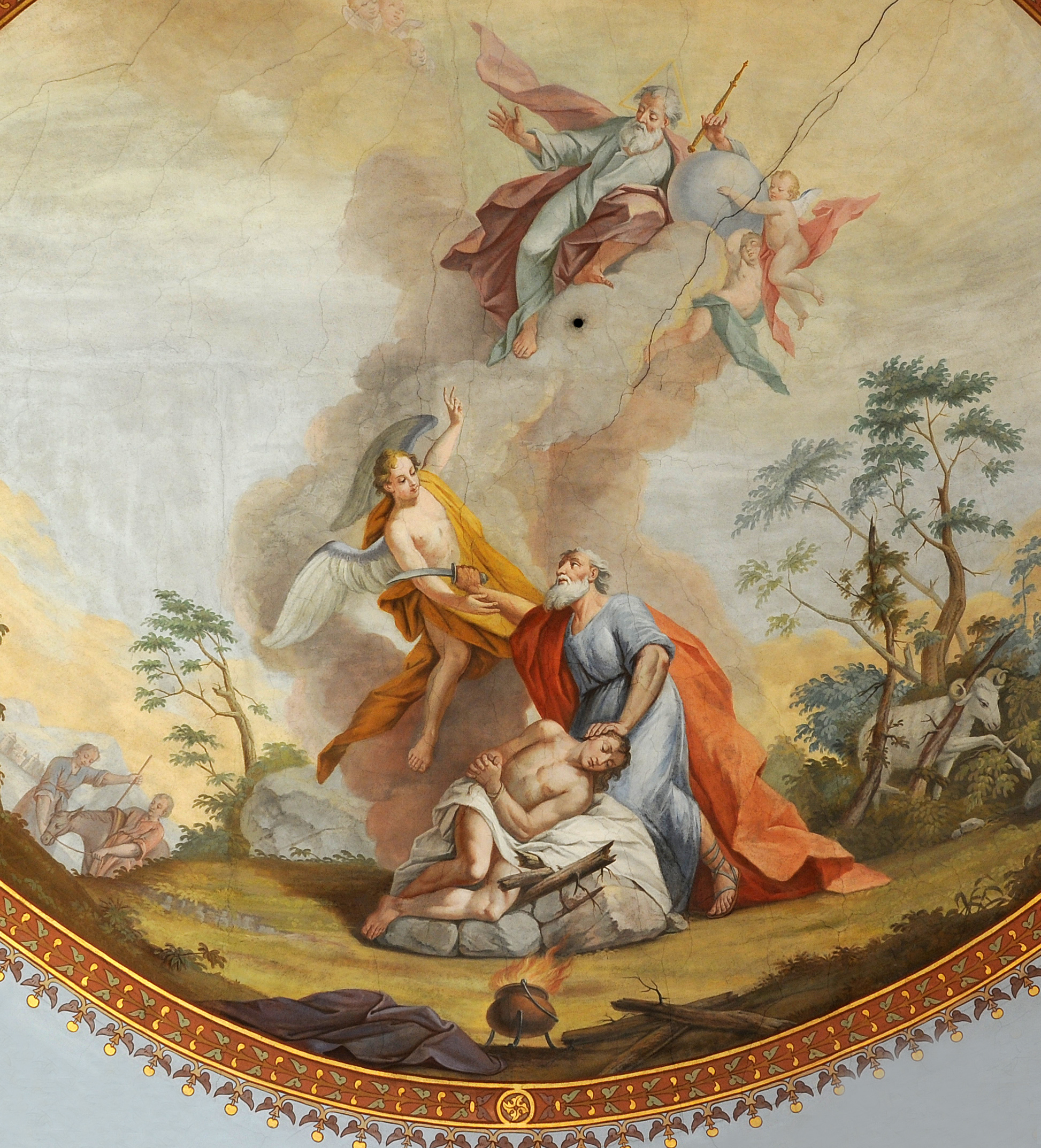 Detail of the Sacrifice of Isaac. Fresco by Franz Xaver Kirchebner in the Parish Church of Urtijëi